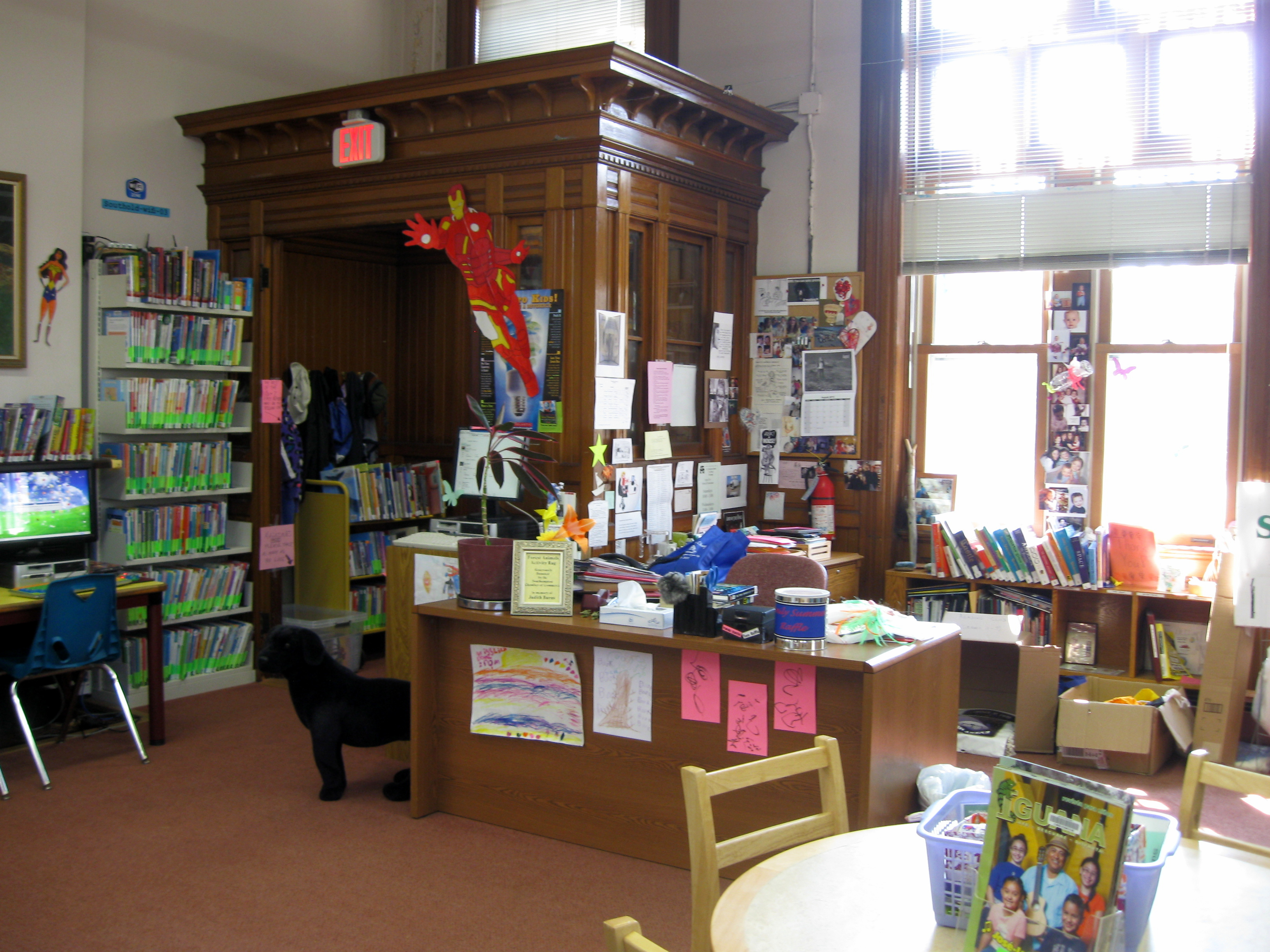 Childrens' room in the Southold Free Library